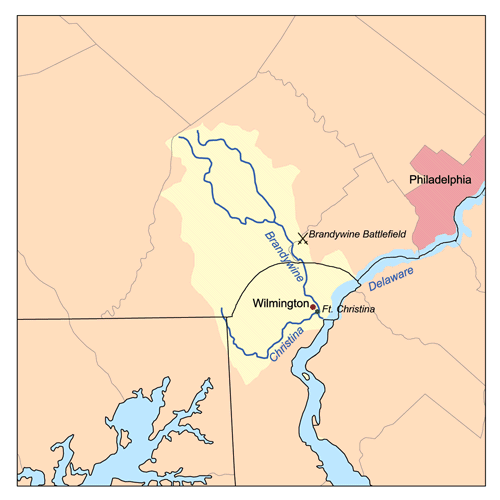 This is a map of the Christina and Brandywine rivers. I, Karl Musser, created it based on USGS data.